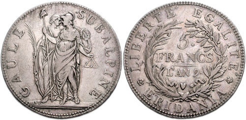 Italy, Piedmonte. Subalpine Republic. 1800-1801. AR 5 Francs (38mm, 24.97 g, 5h). Dated L'AN 9 (Revolutionary Year 9, 1800/1). GAULE SUBALPINE, Liberty standing left, holding cap on pole and cymbal, and Peace standing behind her at left, looking right, holding branch and wreath; LAVY on base LIBERTE' EGALITE' * ERIDANIA * around, 5/FRANCS/L'AN 9 within wreath.